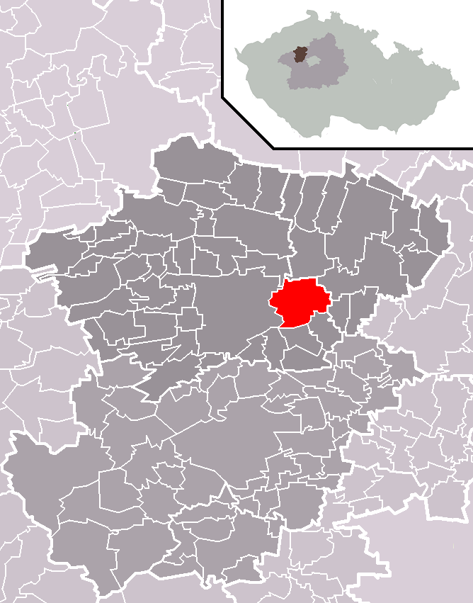 Location of Žižice municipality within Kladno District and administrative area of Slaný as a Municipality with Extended Competence.